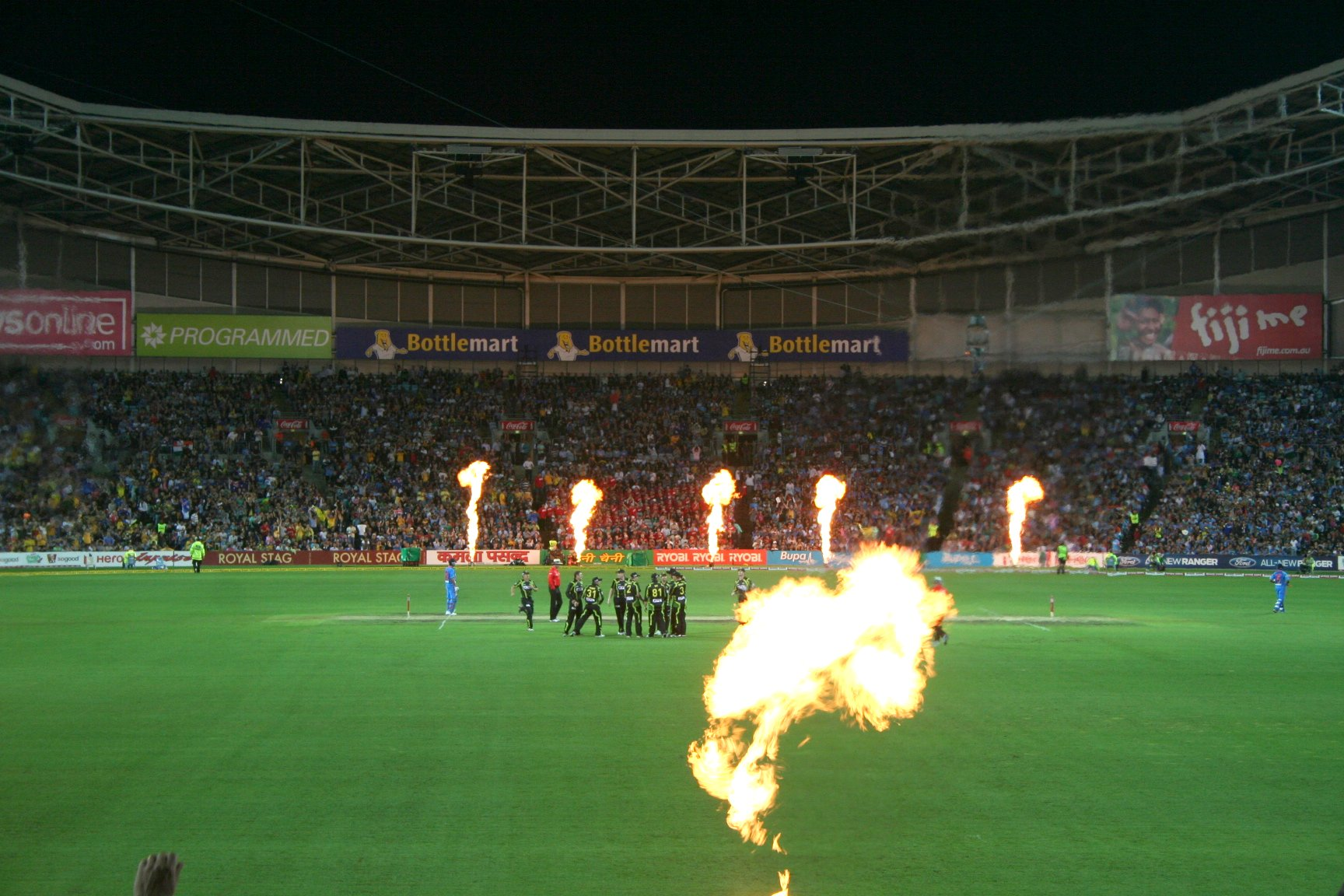 Stands during the break in a Twenty20 match between India and Australia in 2012 at ANZ Stadium